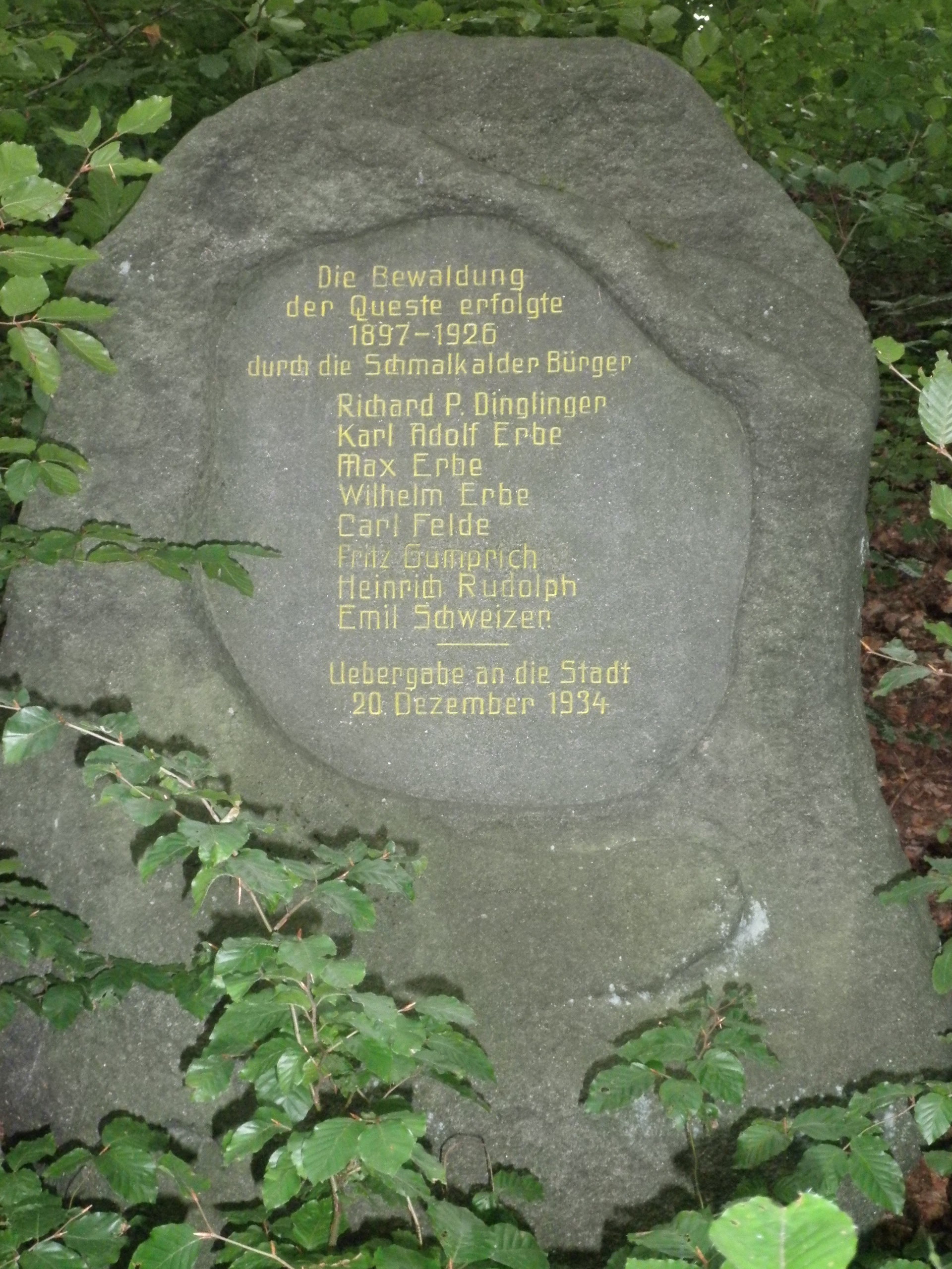 Queste (Berg) in Schmalkalden